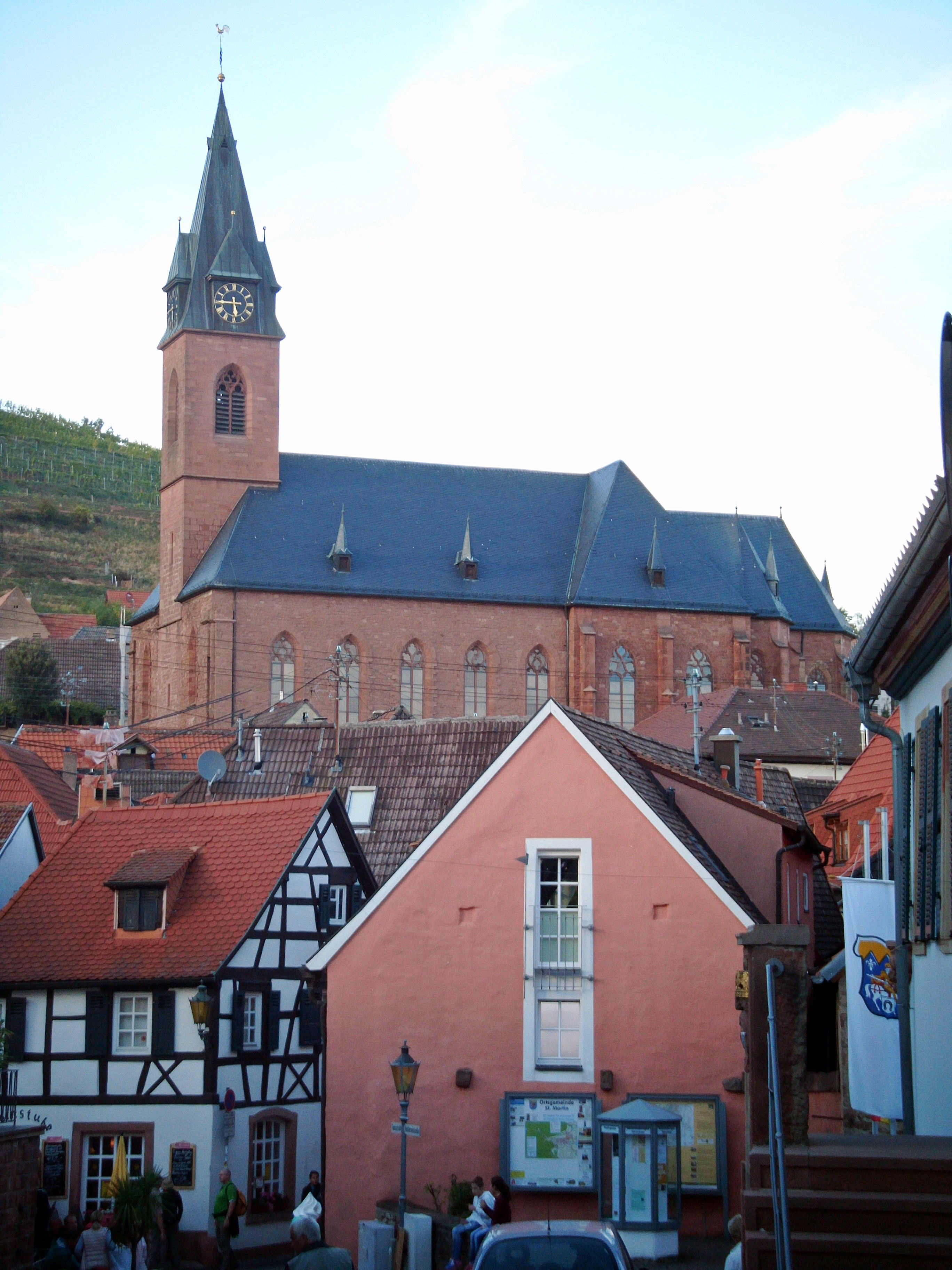 Kath. Kirche St. Martin, in St. Martin (Pfalz), Aufnahme von Süden